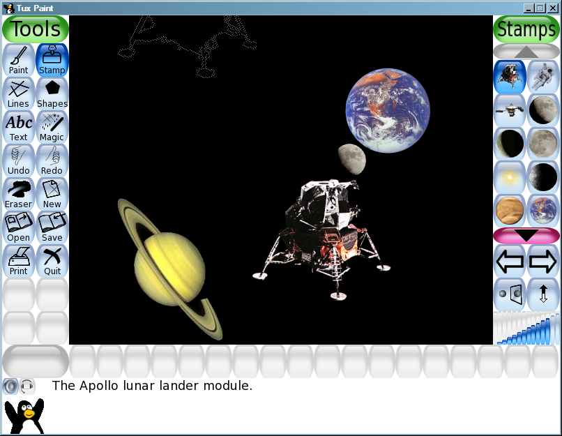 Drawing a scene using stamps from the 'Space' category in Tux Paint.